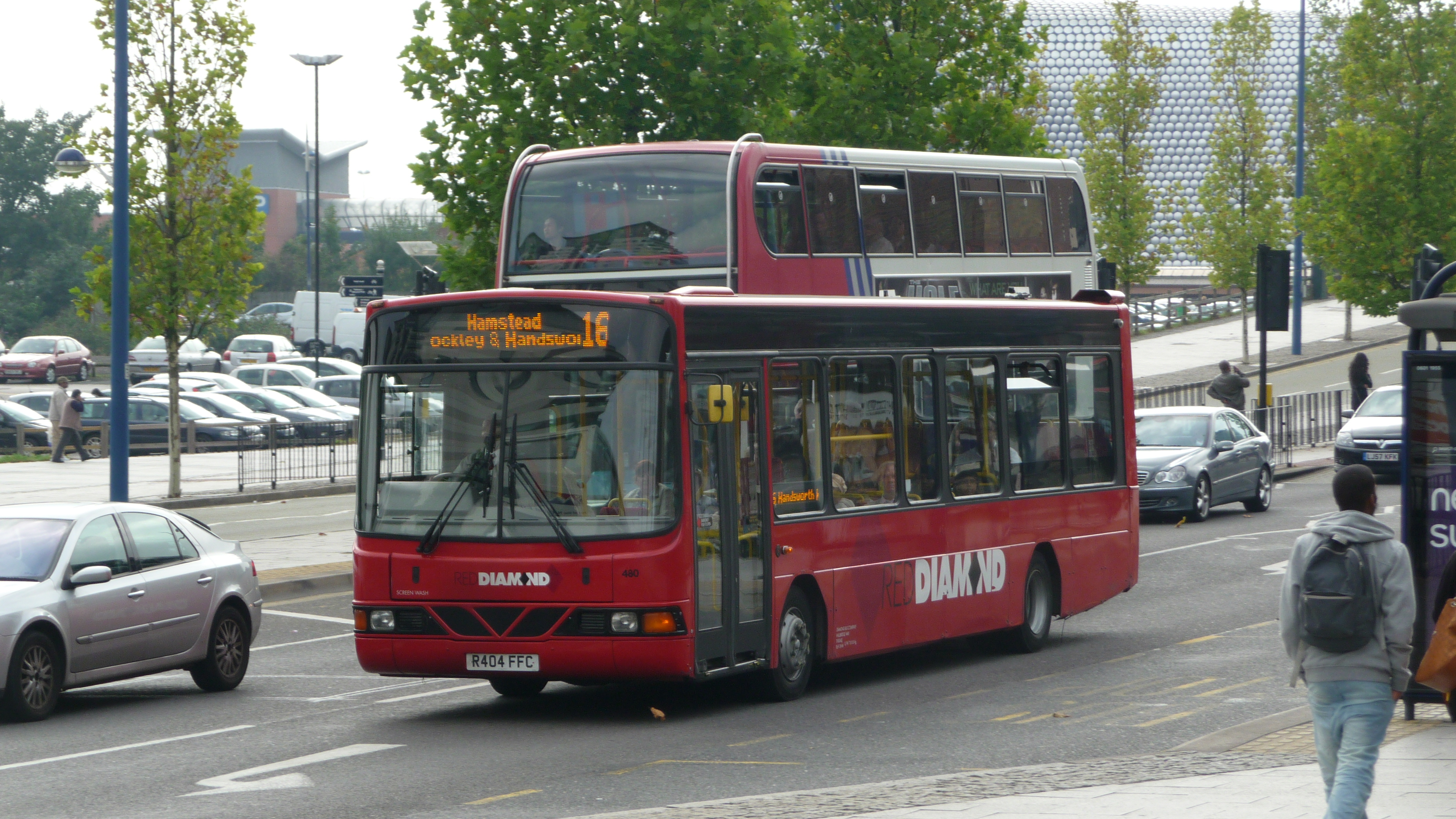 Diamond Bus 480 (R404 FFC), a Dennis Dart SLF/Wright Crusader, in Moor Street Queensway, Birmingham city centre, on route 16. This bus was new to Oxford Bus Company, as fleet number 404. Diamond Bus was purchased by Go-Ahead, so Diamond and Oxford Bus Company were sister companies for a while, hence the transfer of this bus. Go-Ahead did not do very well in the West Midlands, so divested the business.